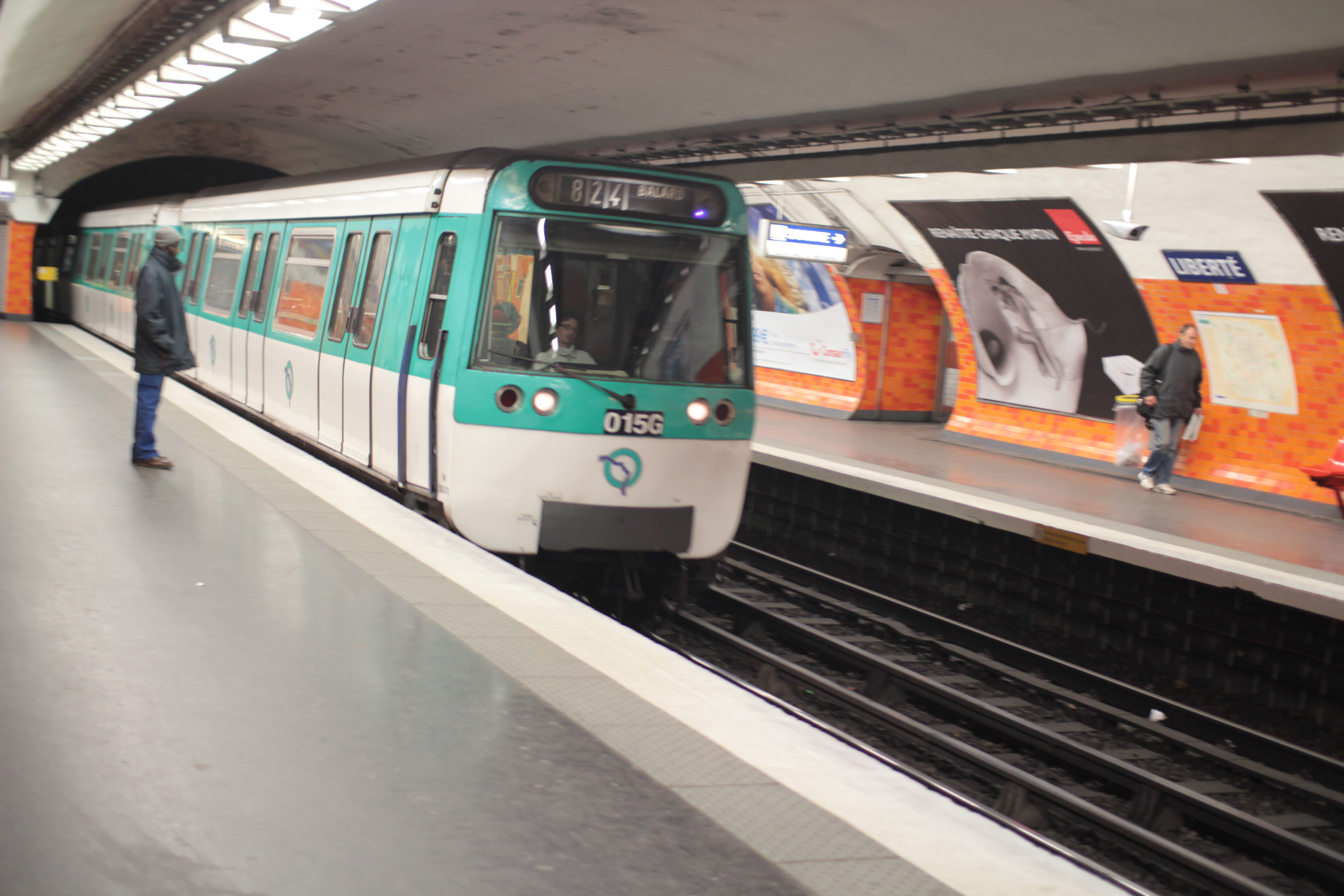 Metro station Liberté on Parisian metro line 8